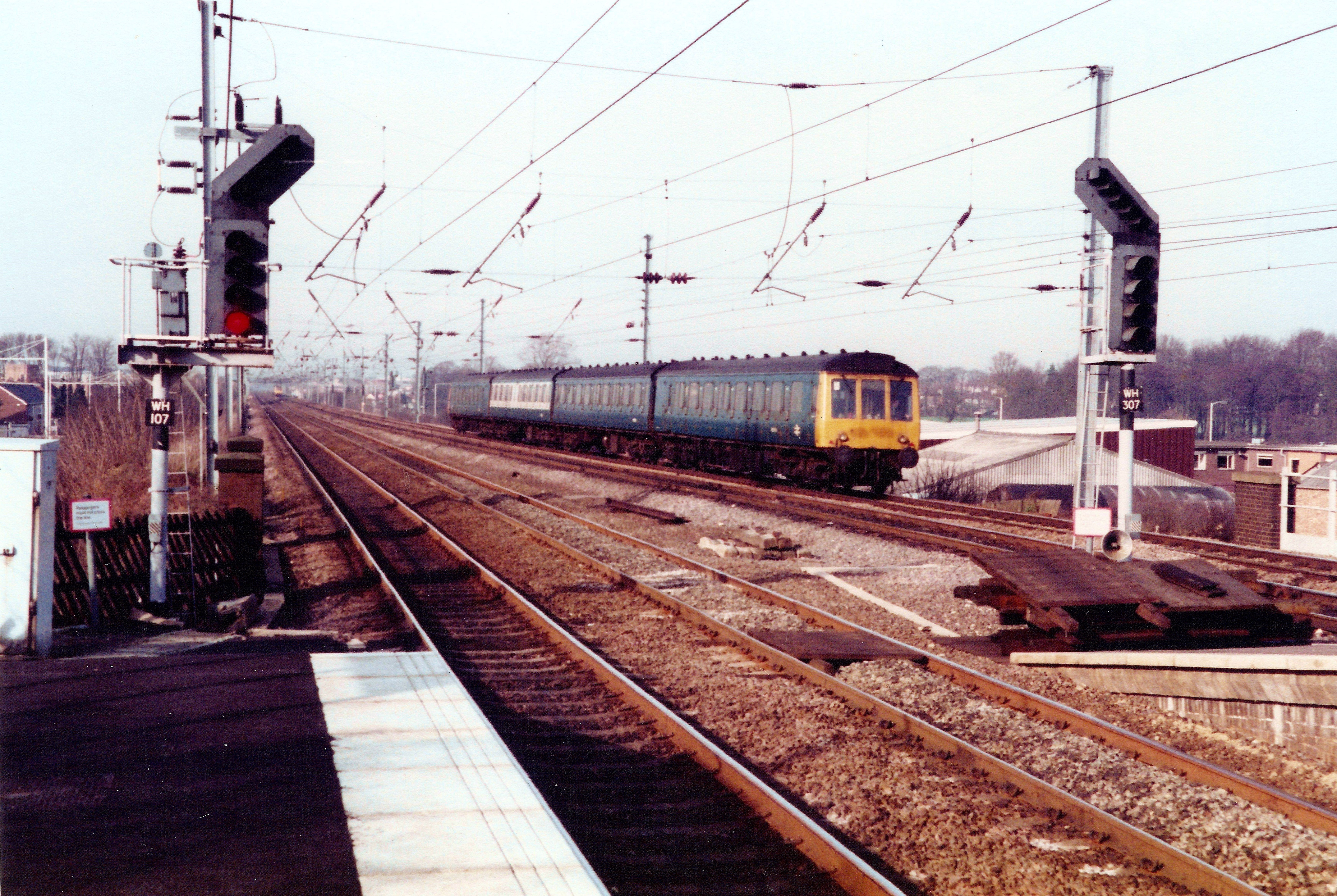 Copied from my original print taken with a Pentax ME/Super Takumar 50mm F1.8.